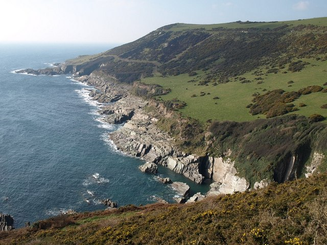 Coast at Netton Down. Steeply dipping slates along the coast with numerous precipitous little coves, and a concave slope above which looks a little like a raised beach at the lower edge. In the foreground is Swale Cove. Off the coast further along is 295998.